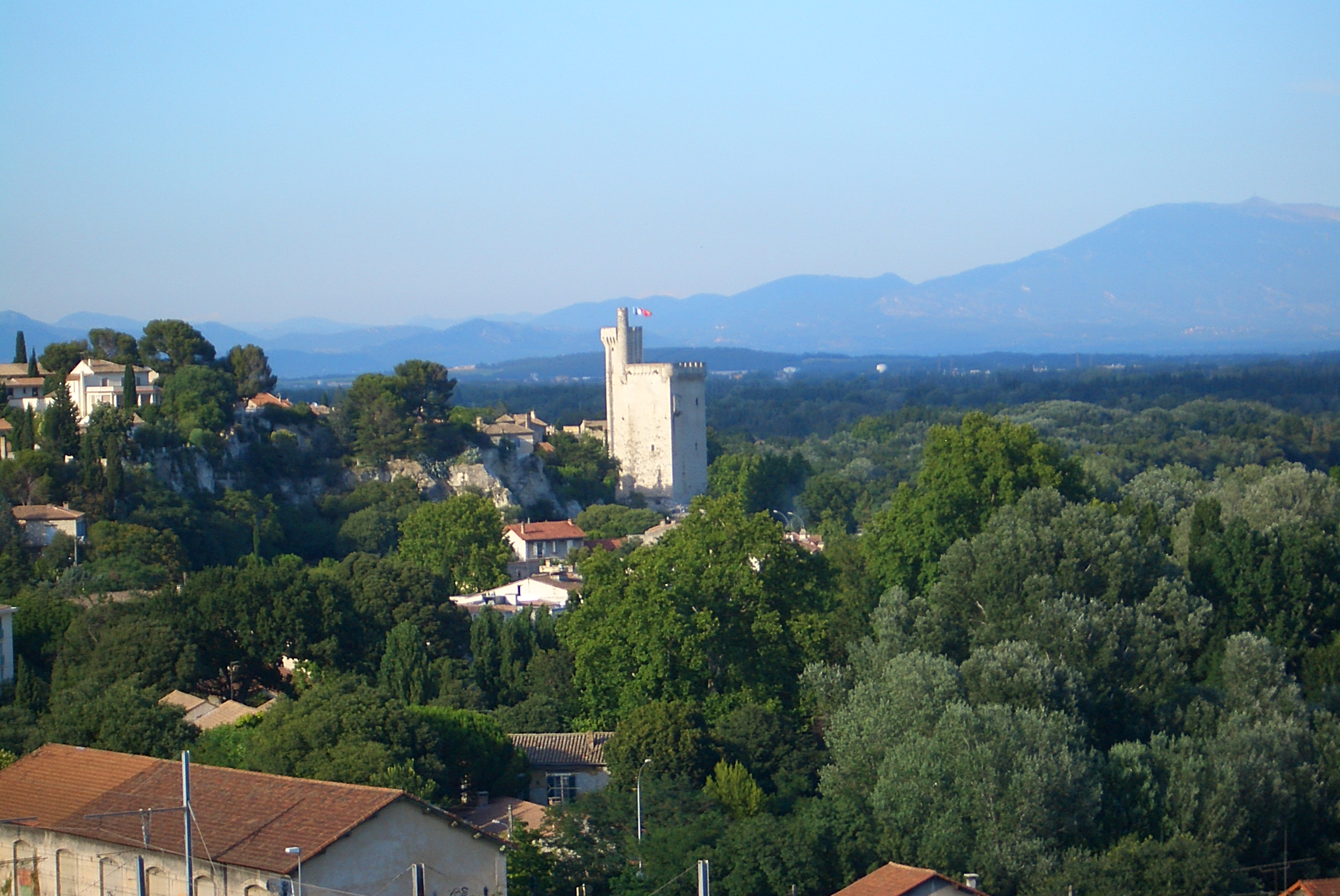 Tour Phillipe Le Bel in Villeneuve-lès-Avignon.